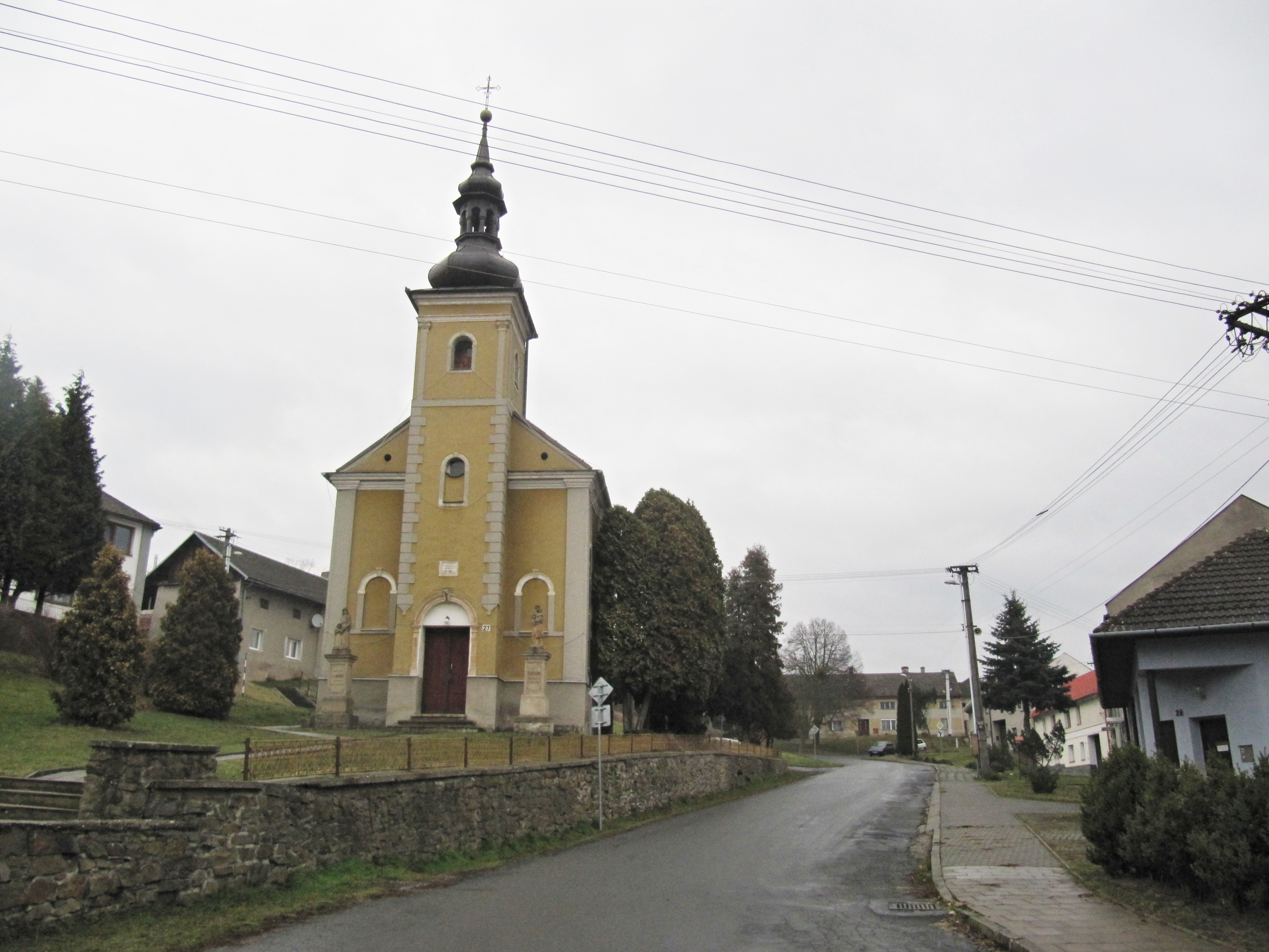 Velký Týnec, Olomouc District, Czech Republic, part Čechovice. Village green with the Chapel of Nativity of the Virgin Mary from 1901.